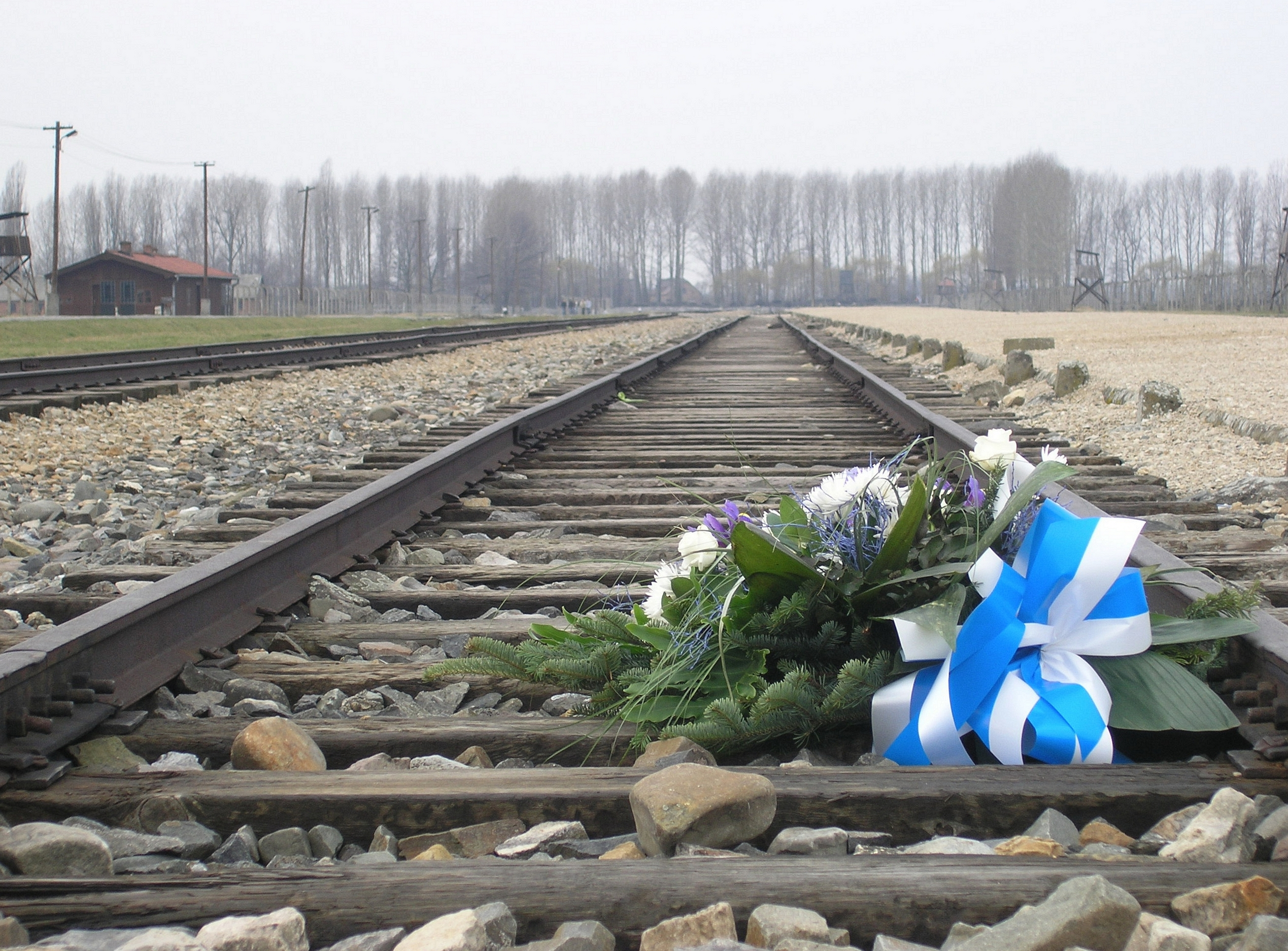 Auschwitz concentration camp, Auschwitz II-Birkenau, flowers of commemoration on the rail track